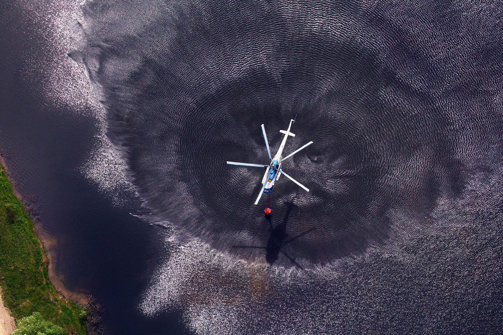 State Emergency Service of Ukraine (MNS) Mil Mi-8MTV (24 yellow (cn 94861)) picking up water near Nizhyn